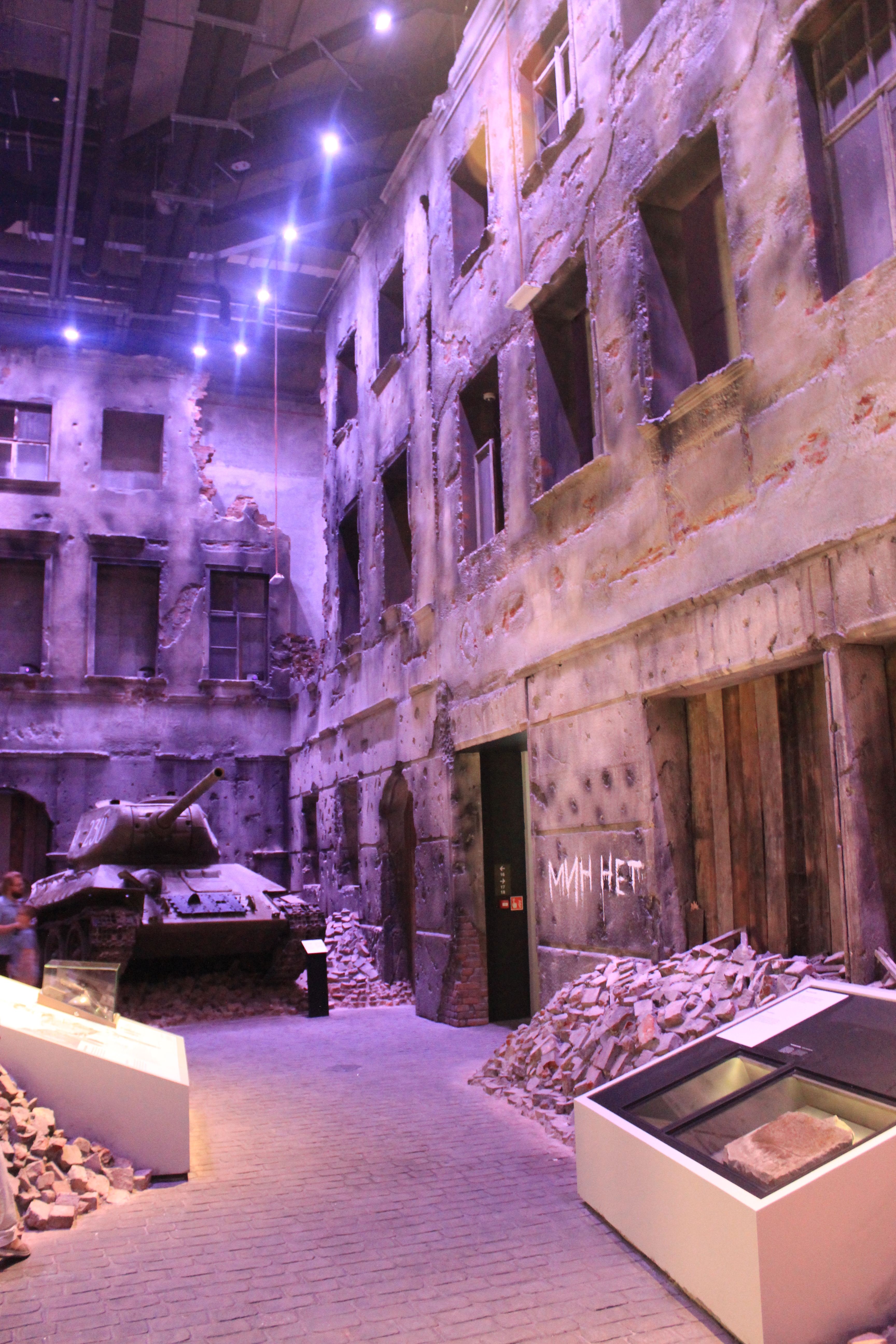 Gdańsk - Museum of the Second World War